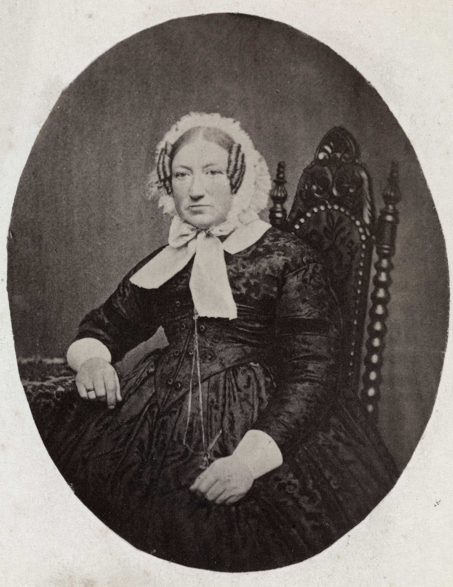 Johanne Caroline Rumi (1812–1884) from Oslo, Norway, married to italo-norwegian Donato Brambani sr. (1800–1842) of Germasino (Lake Como)/Christiania, and in 1846 to business tycoon Oluf Onsum (1820–1899)